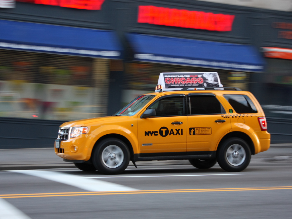 A Ford Escape Taxi on the move in New York City.